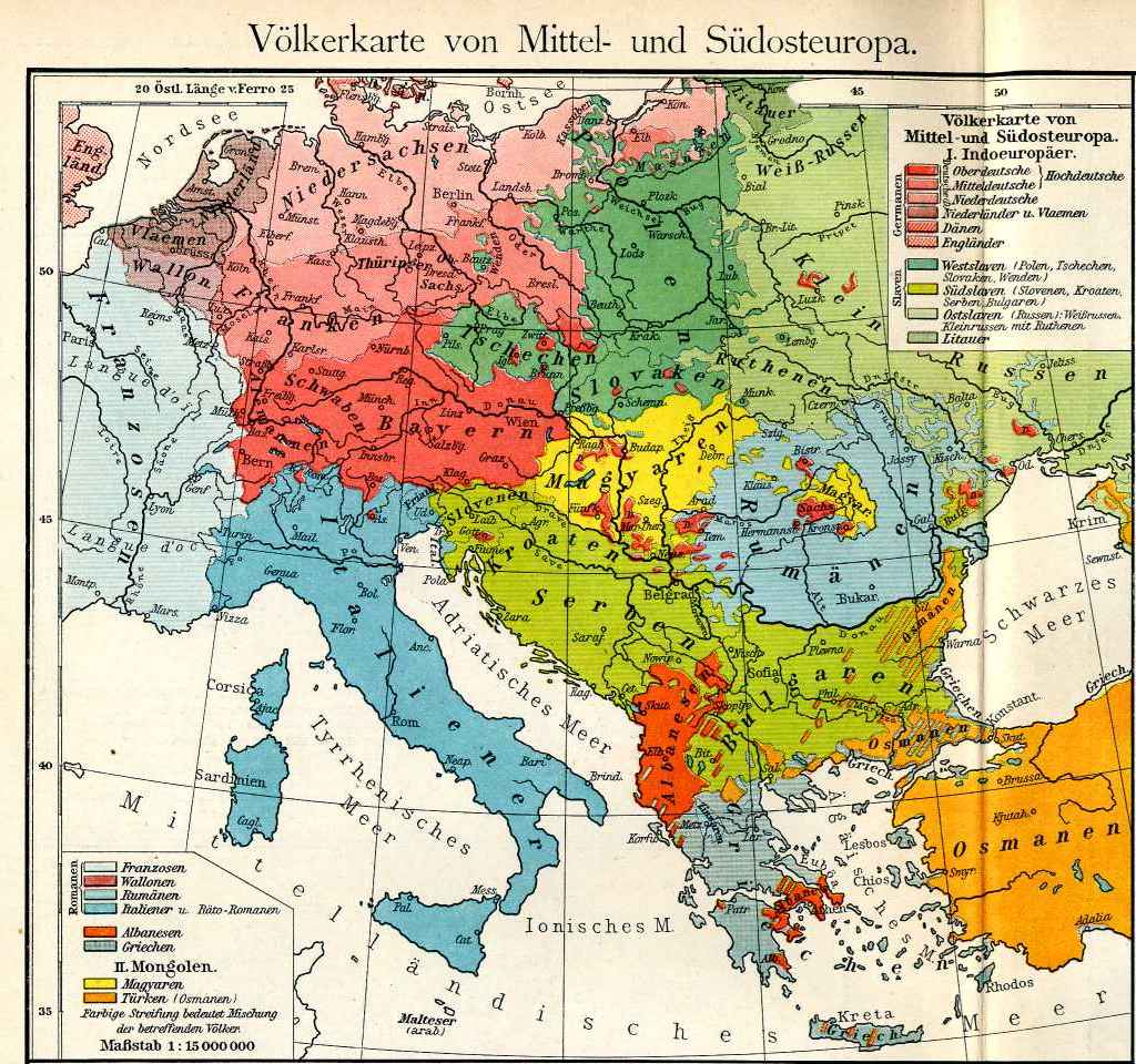 Ethnographic map of Cenral and South Europe